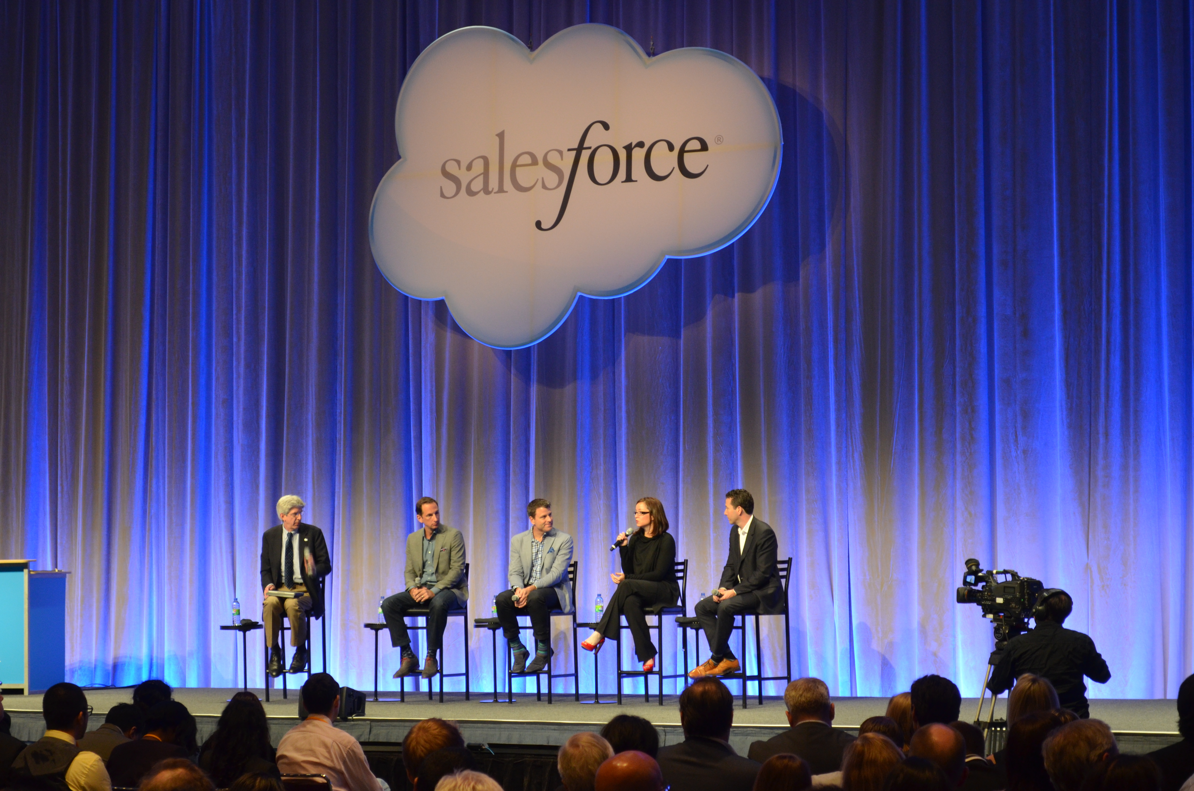 Innovation Panel with Accenture, Facebook, Google, Salesforce Left to Right: Peter Coffee , Jordan Banks (Facebook Canada Managing Director), Chris O’Neill (Google Canada Managing Director), Beth Boettcher (Accenture), Daniel Debow